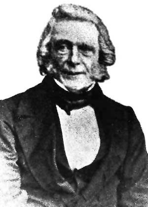 Patrick Matthew, a scotsman